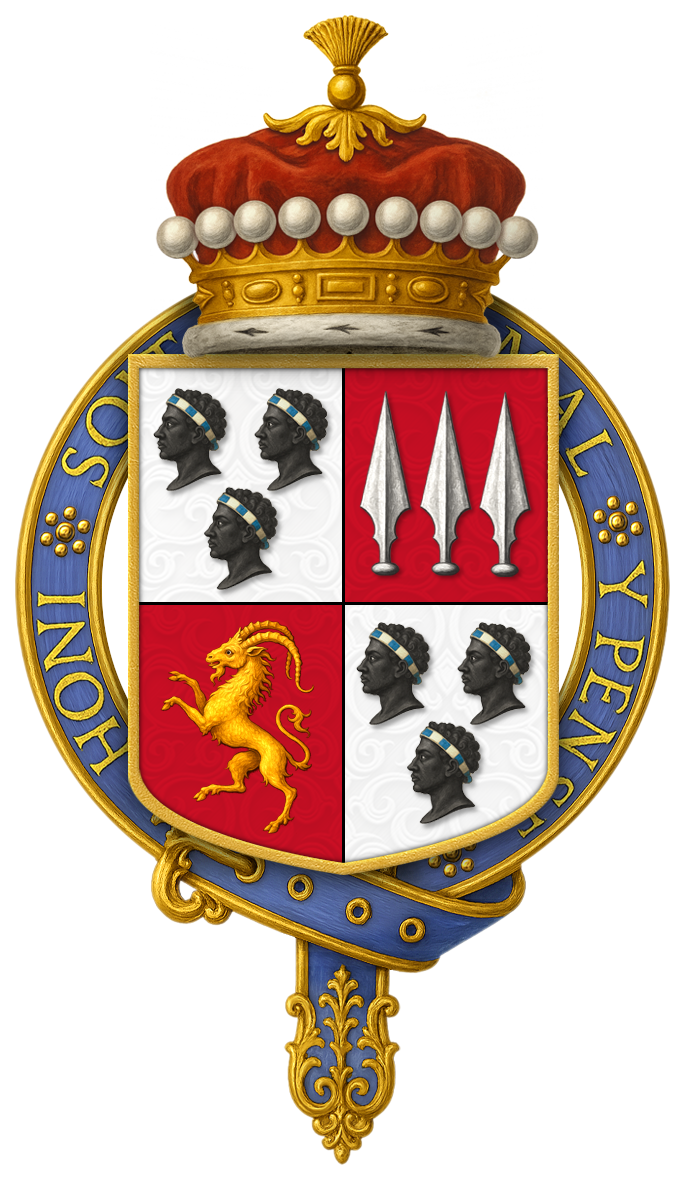 Shield of arms of Stratford Canning, 1st Viscount Stratford de Redcliffe, KG, as displayed on his Order of the Garter stall plate in St. George's Chapel.